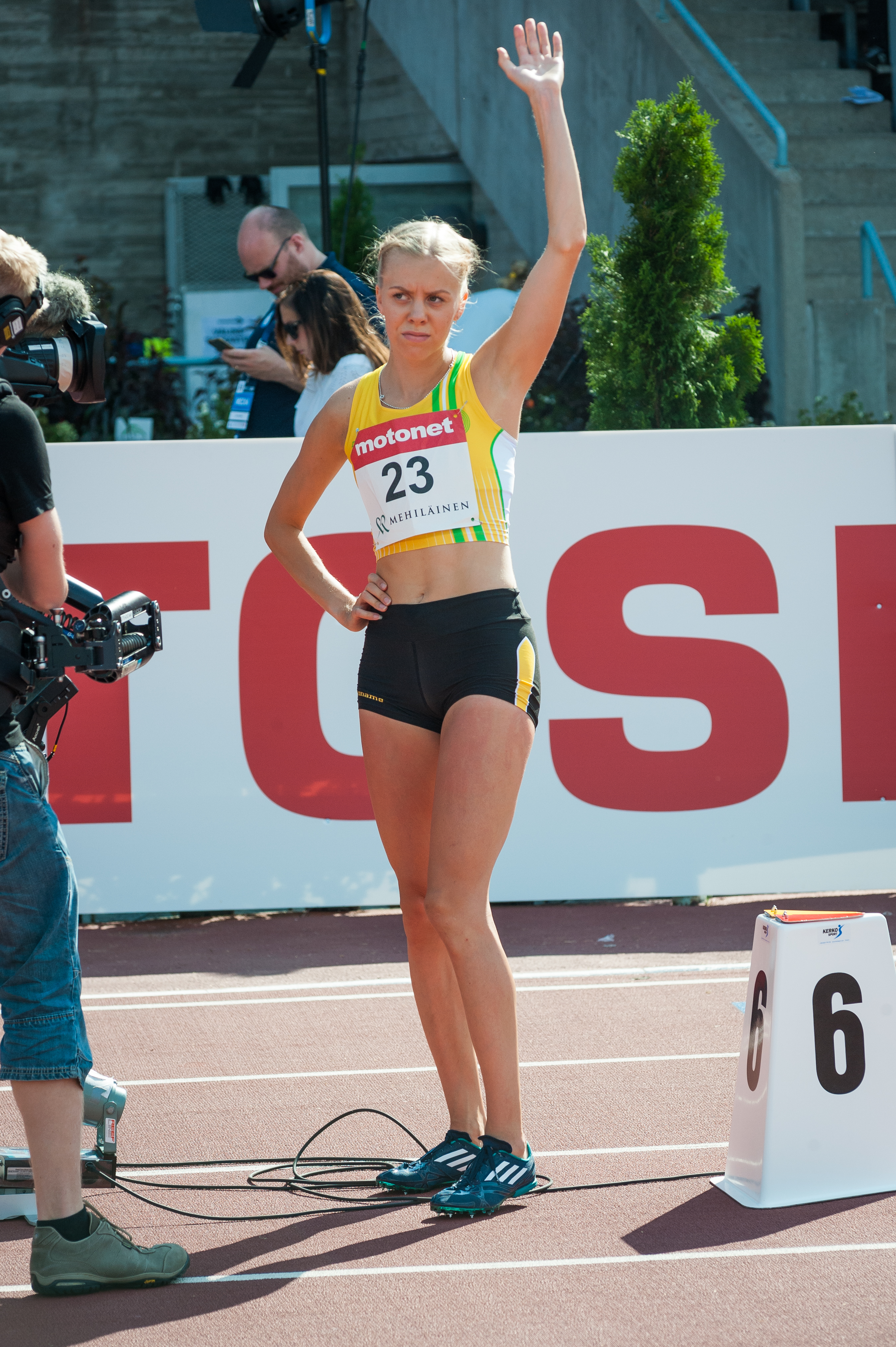 Women's 400 m hurdles competition at the 2018 Kalevan Kisat, the Finnish championships in athletics, in Jyväskylä, Finland.